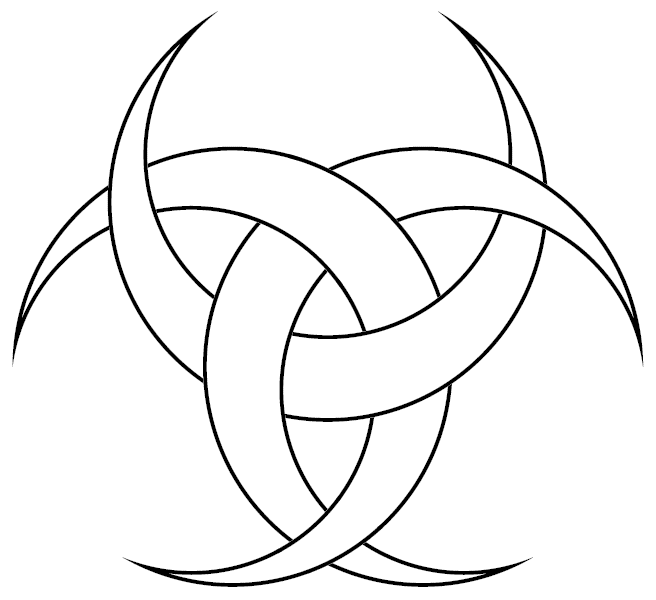 Three crescents interlaced so as to be incomplete Borromean rings. This was the emblem of Diana of Poitiers and her lover Henry II of France (see external site ). It has also come to be used in the coat of arms of Bréval (see Image:Blason ville fr Bréval (Yvelines).svg) and Crécy-la-Chapelle (see Image:Blason CrecylaChap.svg), and in a slightly different form as the emblem (or "petites armoiries") of the city of Bordeaux (see Image:Bordeaux30.jpg). In recent years, it has been taken up by a few neopagans (as an alternative version of the symbol Image:Triple-Goddess-Waxing-Full-Waning-Symbol.png), though it has an unfortunate resemblance to a modern biohazard symbol... For a version in symbolic colors, see Image:Three-Crescents-Diane-Poitiers-multicolored.png . For a solid form of the symbol, see the lower corner of Image:Religious symbols.svg .